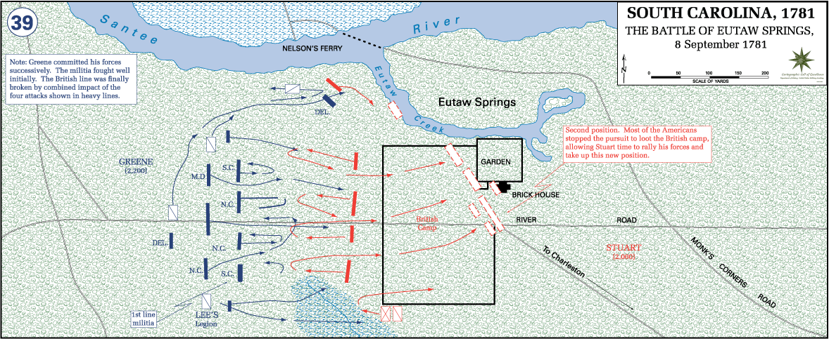 State of the Battle of Eutaw Springs